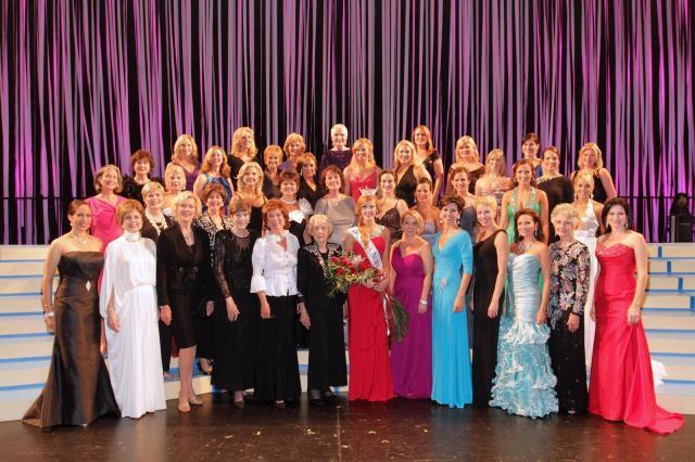 Group photo of former Miss North Carolina winners at the 75th anniversary pageant.